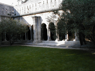 Cloister of Saint Trophimus